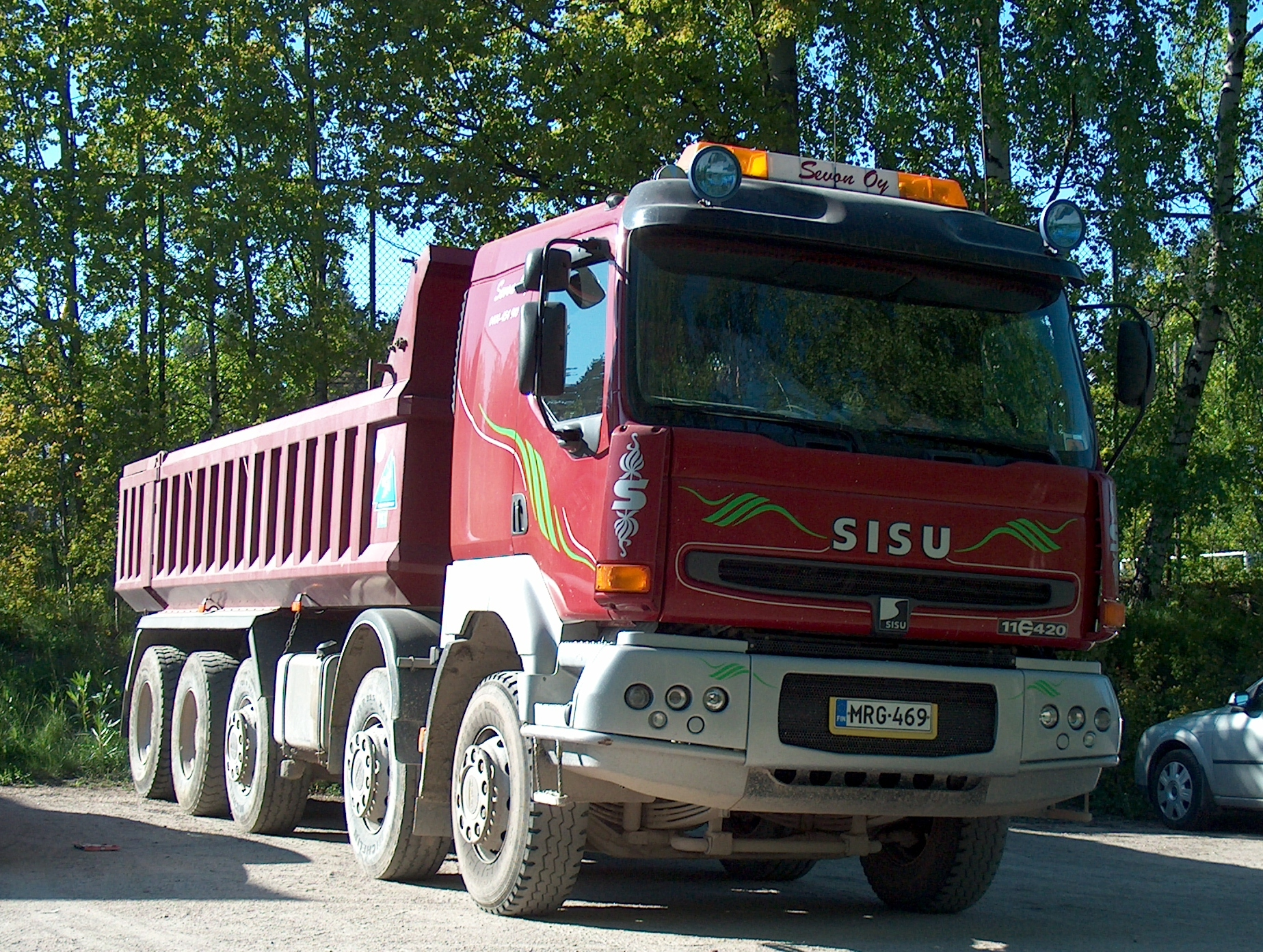 Finnish Truck Sisu in Vantaa, Finland